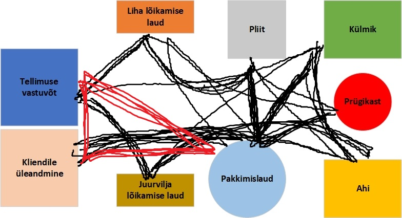 Spaghetti diagram for two people in restaurants kitchen